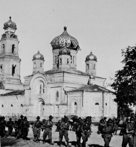 Alpini marching to the Don. Here (with reference here) identified as the Roven'ki. Church of the Trinity. Holy Trinity Church. Thanks to ru.wiki